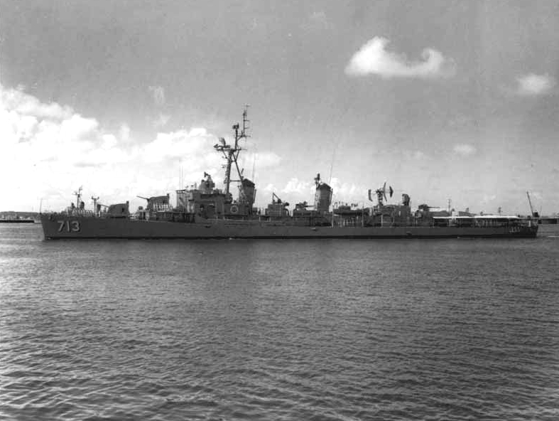 The U.S. Navy radar picket destroyer USS Kenneth D. Bailey (DDR-713) at Mayport, Florida (USA).